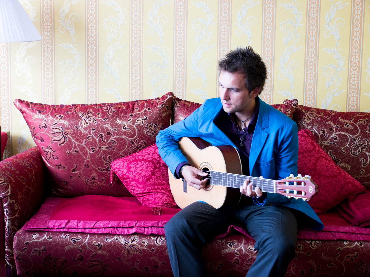 Andreas Lehmann - Composer and Arranger